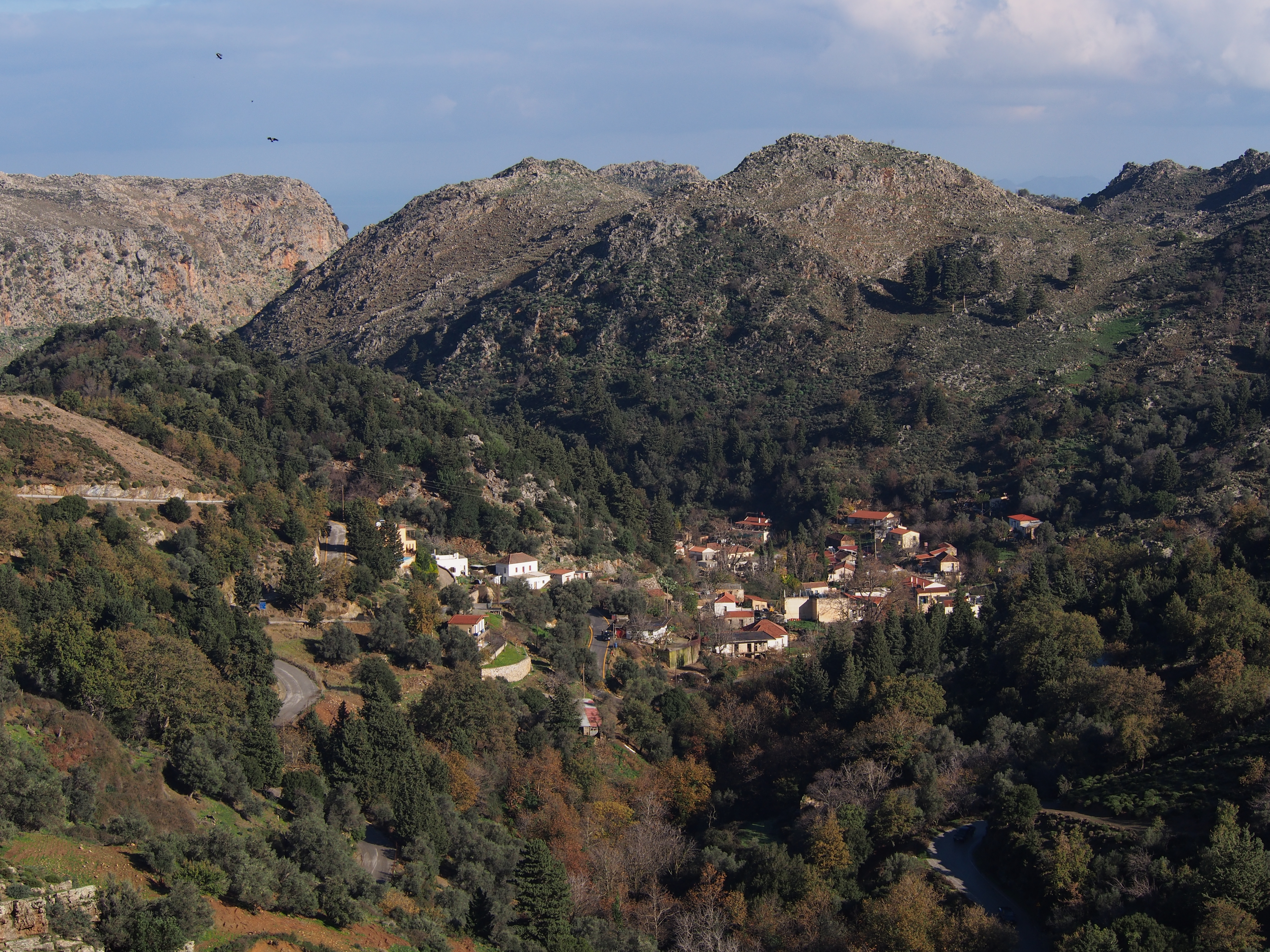 Panoramic view of Theriso from south. Theriso lies in small valley at the entrance of the Theriso gorge.